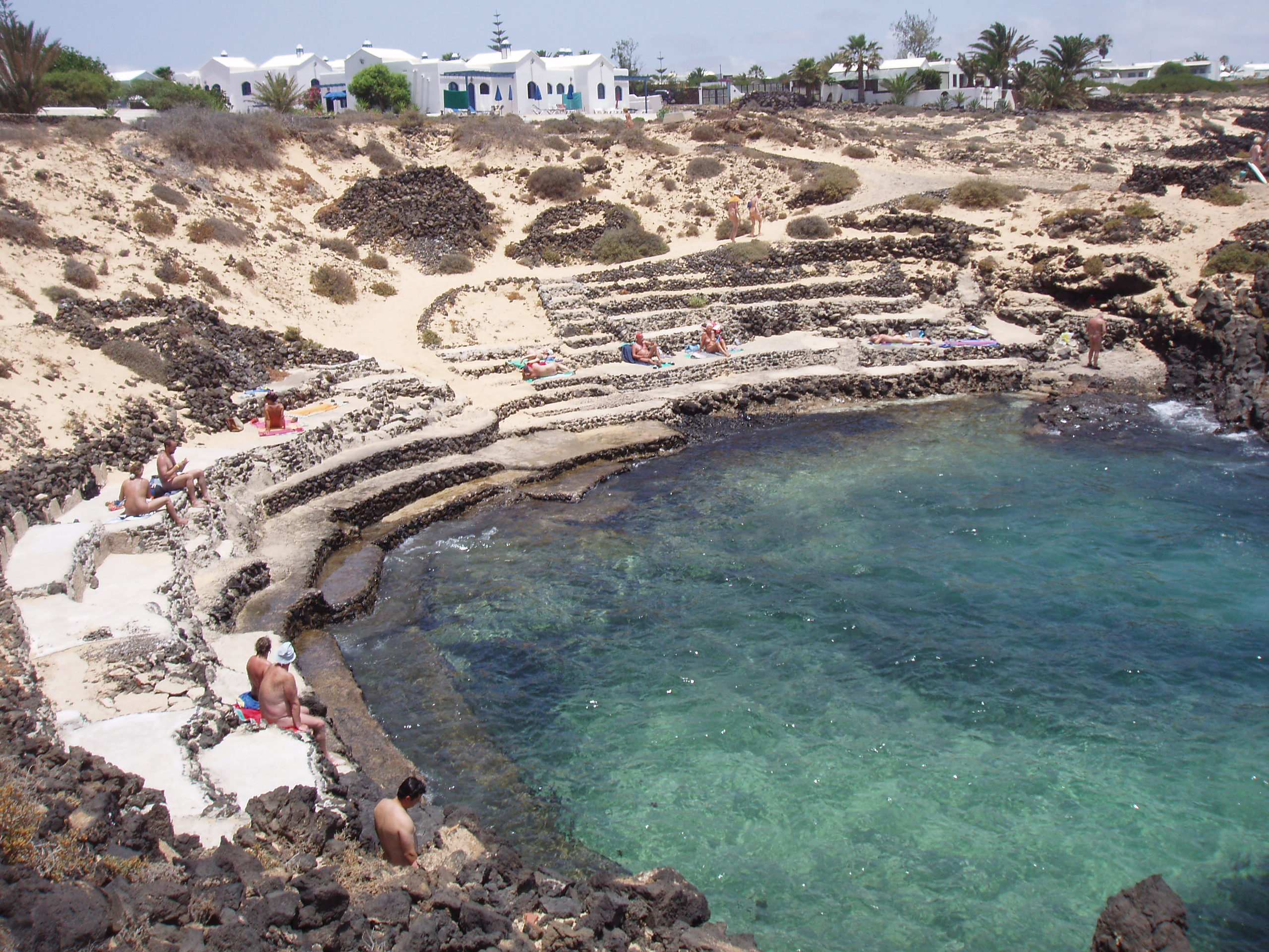 A bathing area at Charco del Palo, Lanzarote.